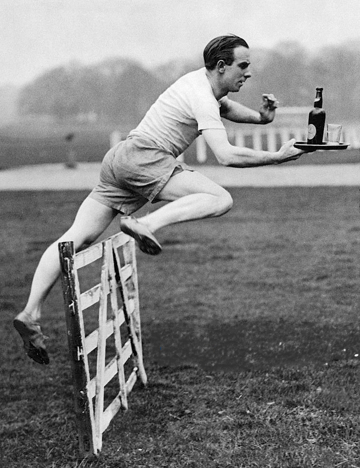 P. Hodge, the crack British hurdler and cross country runner, is shown above making a perfect leap over the hurdles while carrying a tray and bottle. Proof of the perfect form attained by Hodge is given in the above photo for unless he is perfect in poise and balance when clearing the hurdle, the tray and bottle would be thrown from his hand. There is little loss of speed when making the leap as Hodge increases his momentum just before jumping for the hurdle.